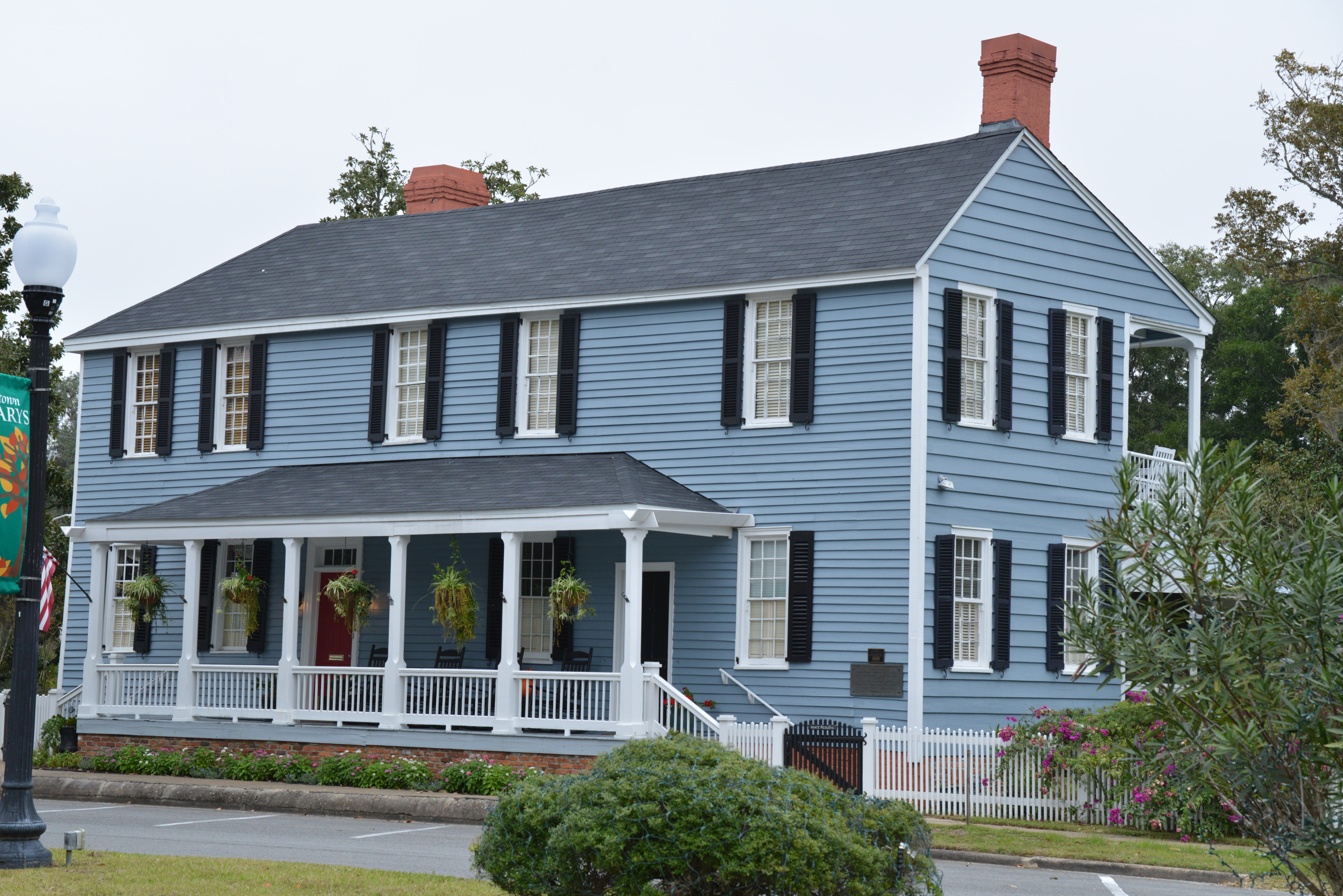 St. Marys Historic District, St. Marys, Georgia, US. Major Archibald Clark House, or Jackson-Clark-Bessent-MacDonell-NEsbett house, ca. 1801, on Osborne. On the National Trust for Historic Preservation.